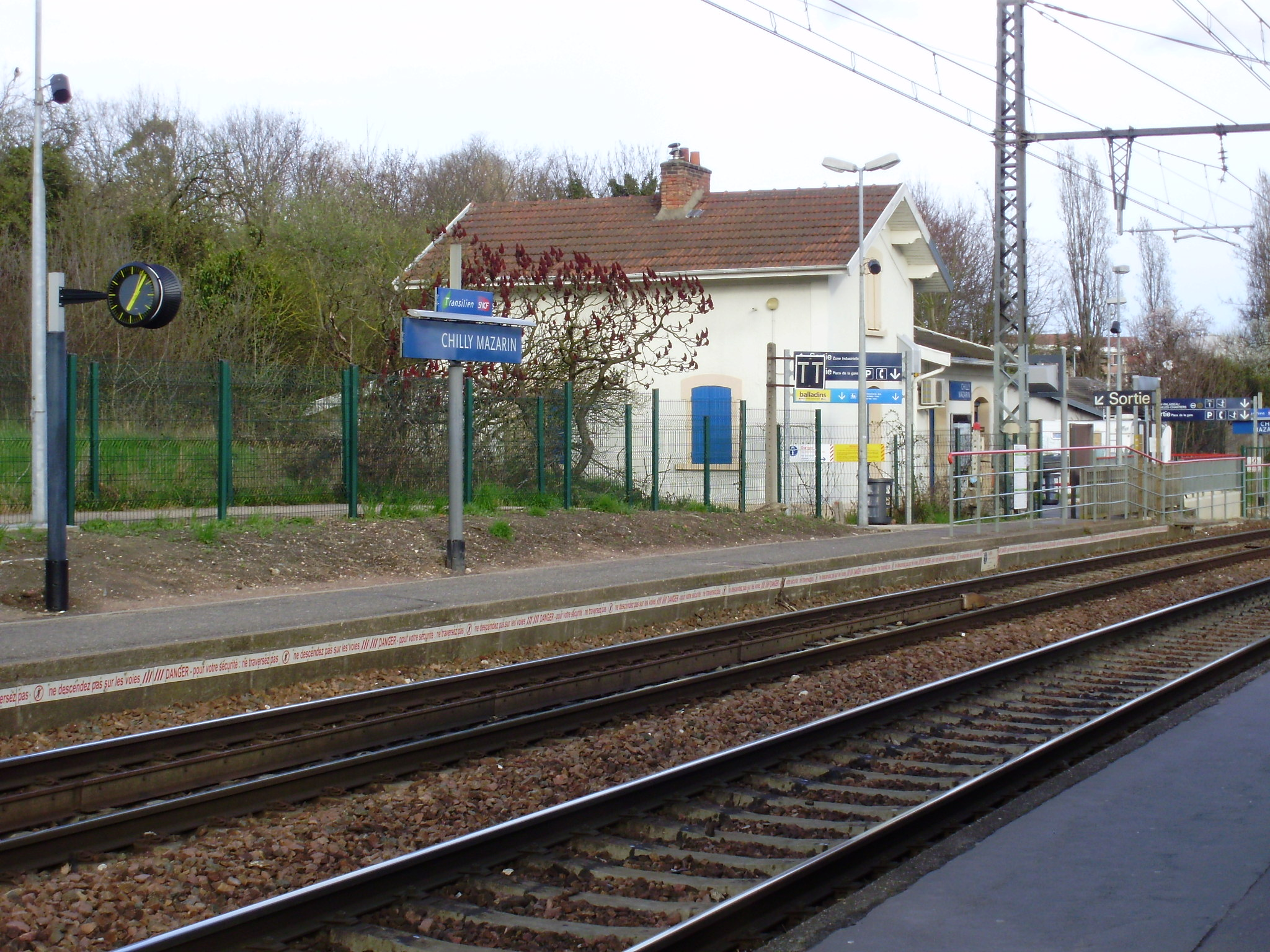 Platform of Chilly-Mazarin station, Essonne, France